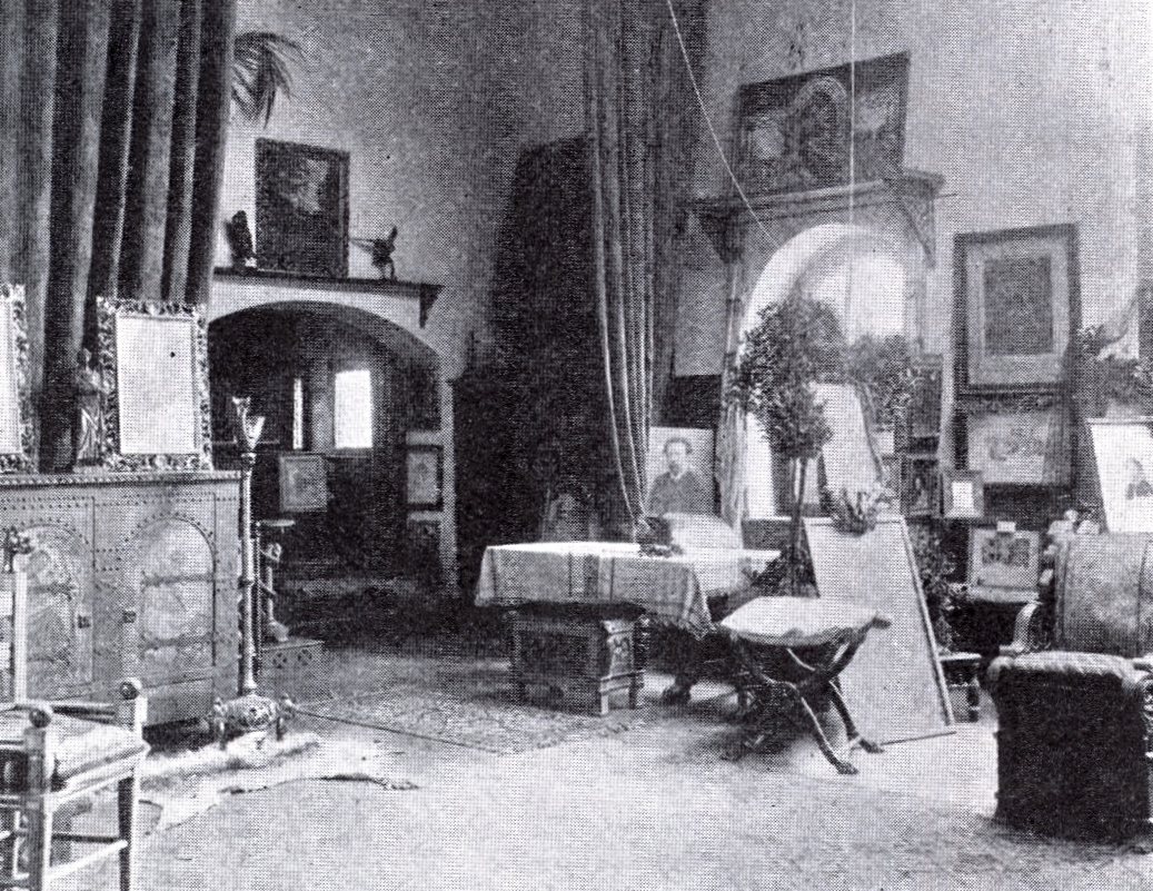 Villa Waldfrieden in Düsseldorf, erbaut vor 1904, Entwurf Regierungsbaumeister Schleicher, Bauherr Maler u. Professor Carl Gehrts.jpg